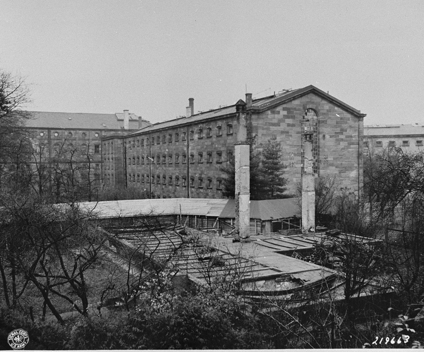 Prison in Nurnberg c. 1945.